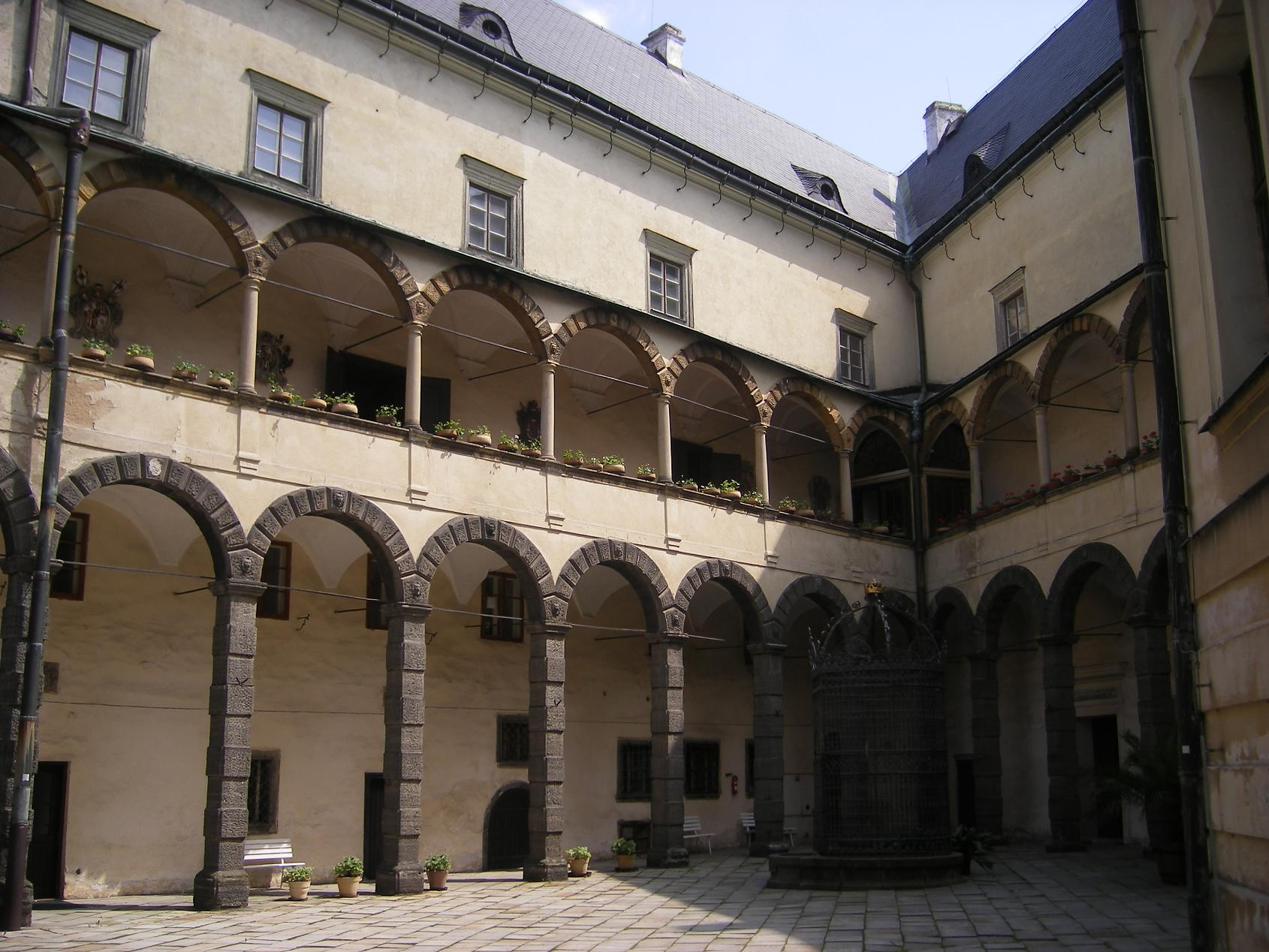 Palace / museum in Bruntál. Courtyard.